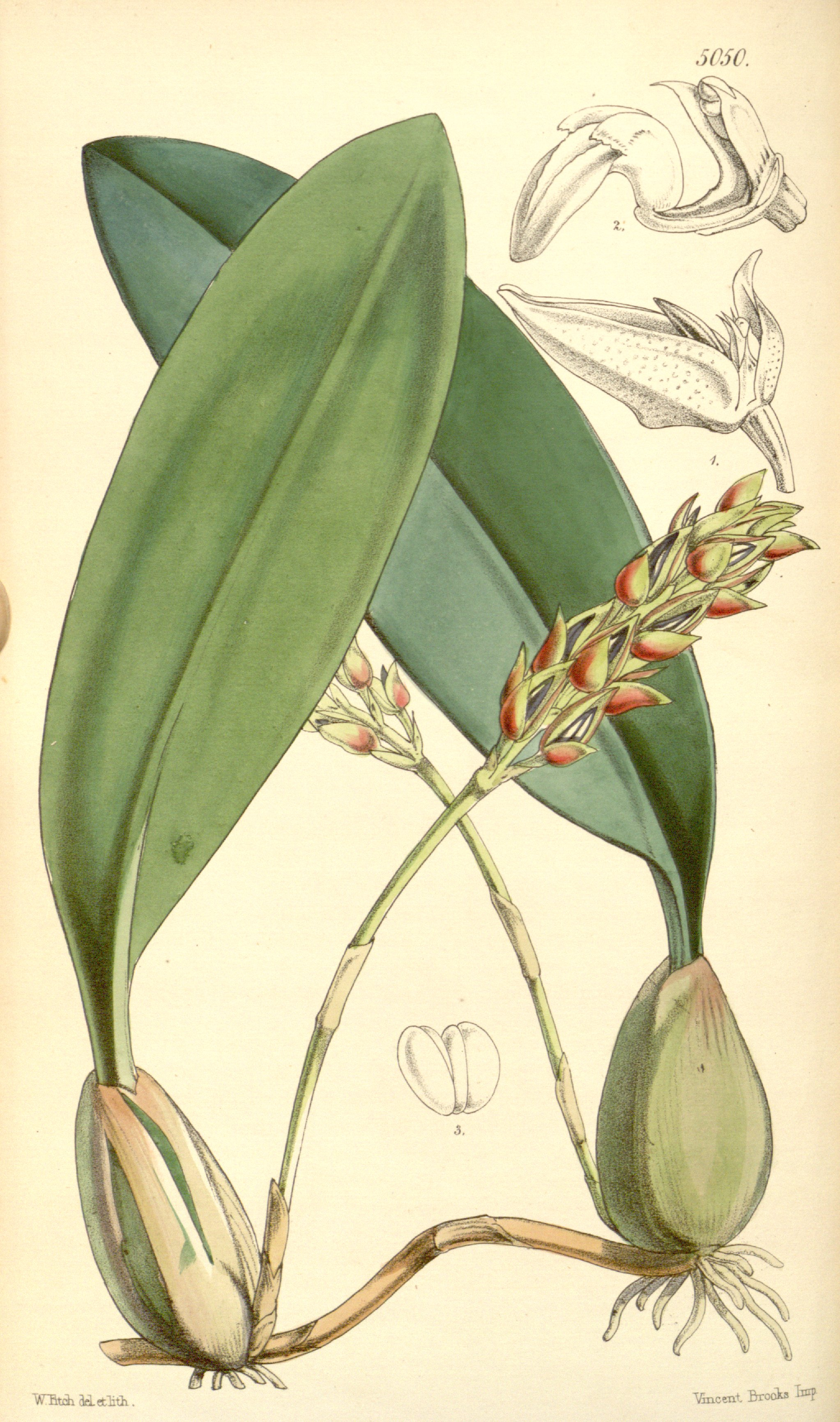 Illustration of Bulbophyllum sterile (as syn. Bulbophyllum nilgherrense, spelled by Hooker as Bolbophyllum Neilgherrense)